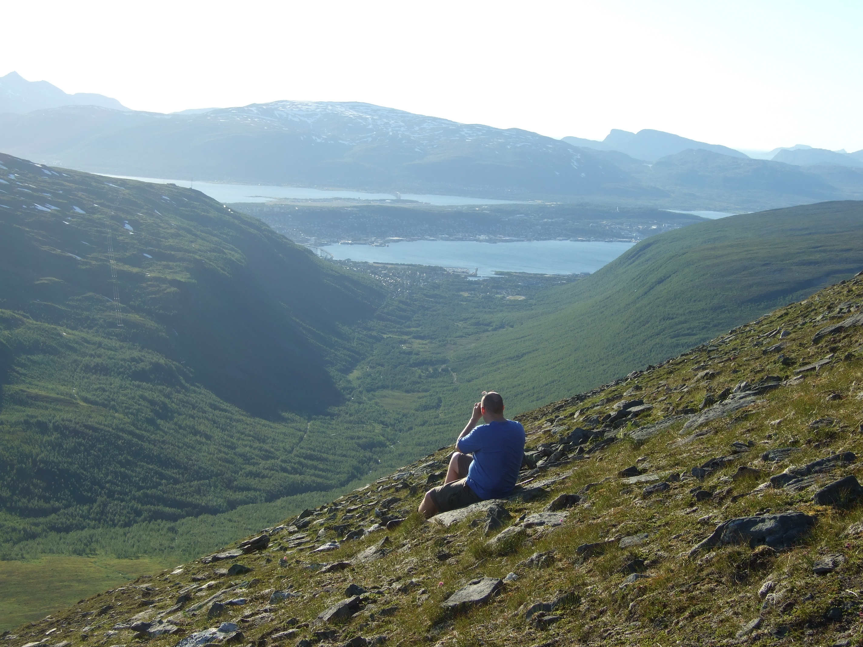 View of the Tromsdalen valley, seen from Tromsdalstind. The isles of Tromsøya and Kvaløya in the background.